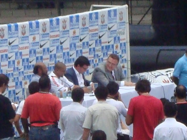 Presentation from left, Roberto Carlos, the Corinthians